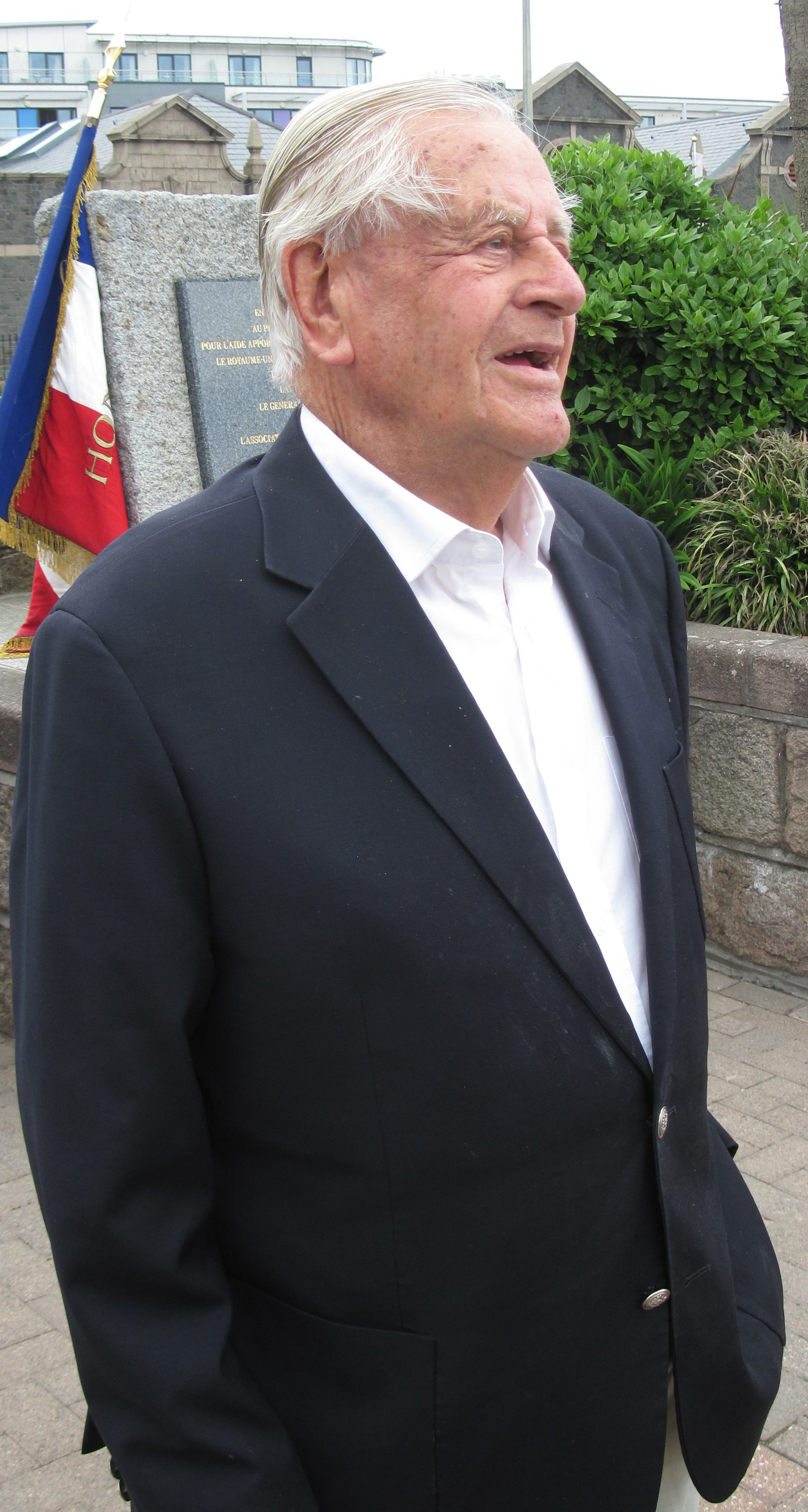 Bob Le Sueur, photographed in Saint Helier at the 18 June Commemoration, a few days after the announcement of the award to him of MBE in the Queen's Birthday honours